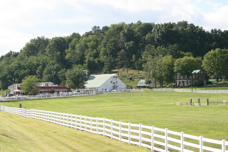 Bob Evans Farm & Restaurant, Rio Grande, Gallia County, Ohio, United States